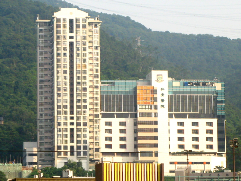 仁安醫院 Union Hospital